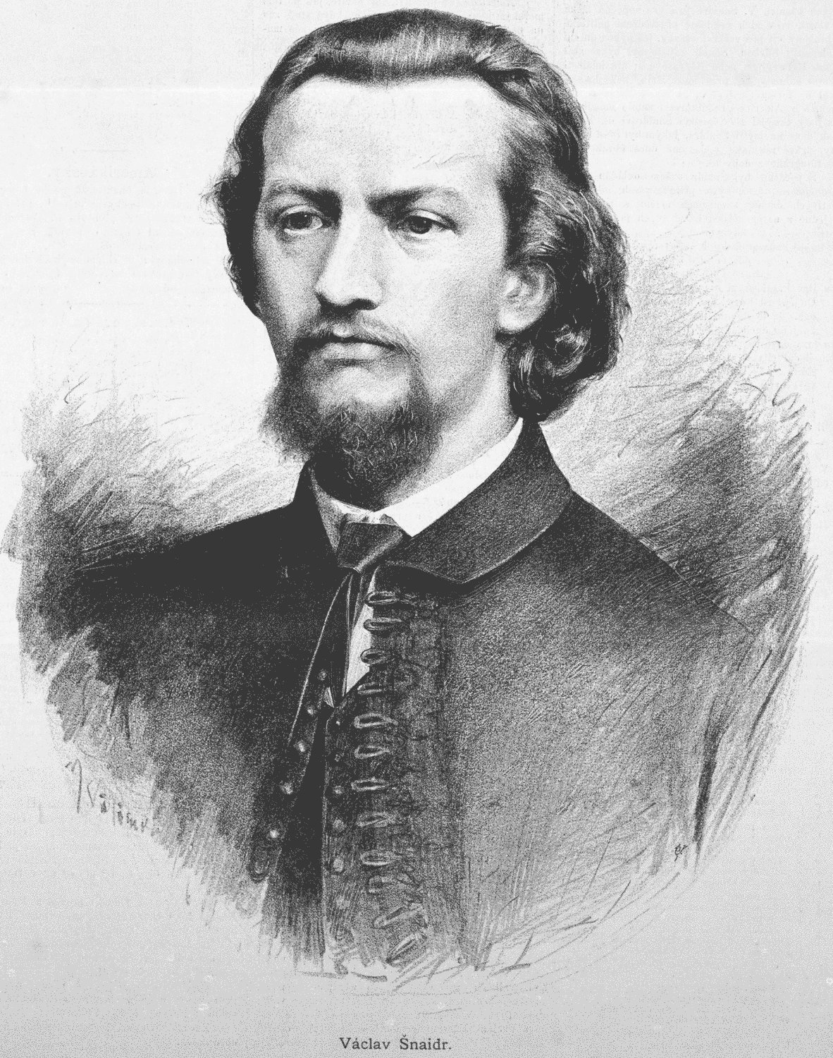 Portrait of Václav Šnajdr (1847-1920), Czech-American journalist and poet. Painted in 1885 according to a 10-year old photograph.